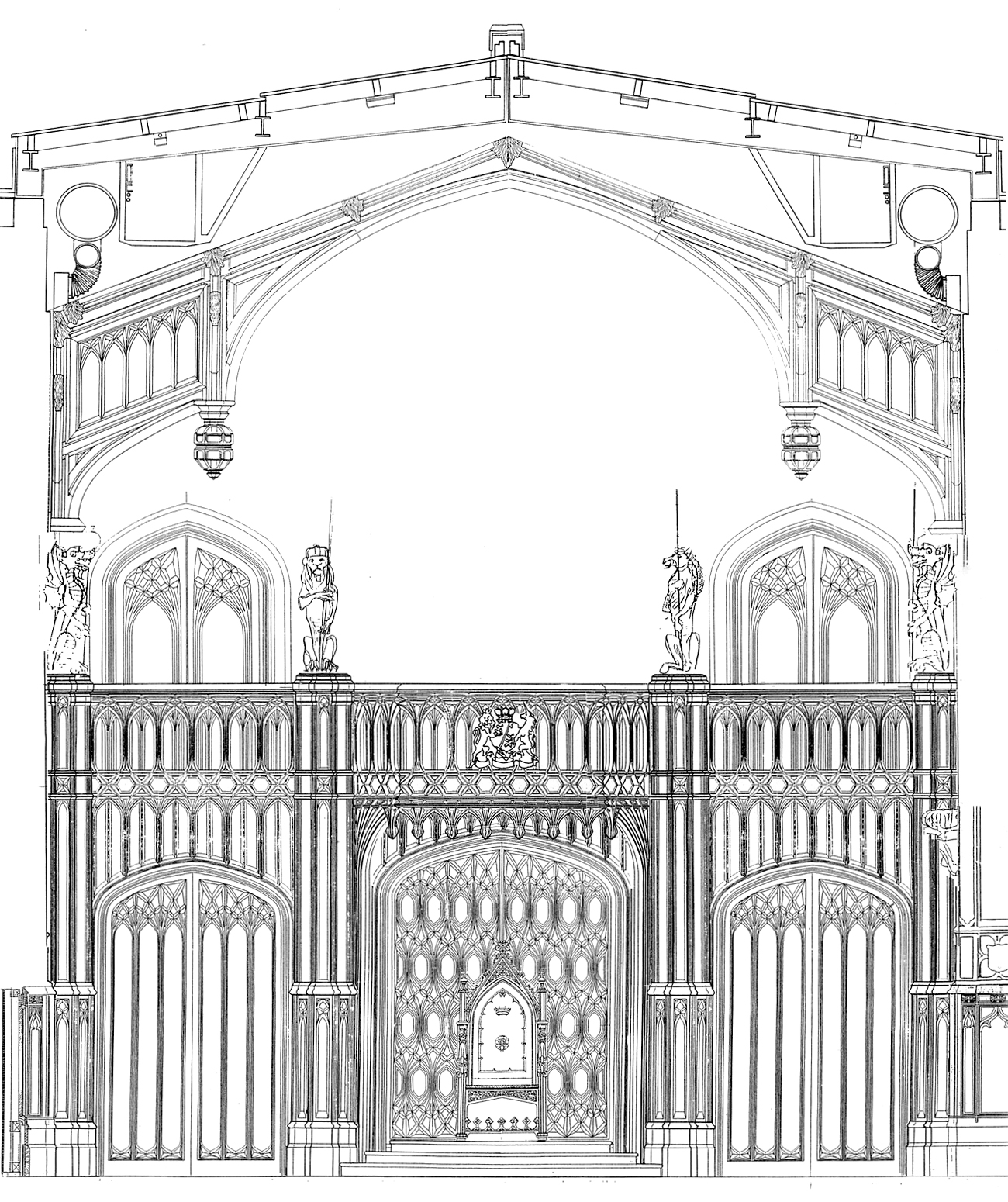 Original design diagram for reconstruction of St George's Hall, Windsor Castle, after the 1992 fire.